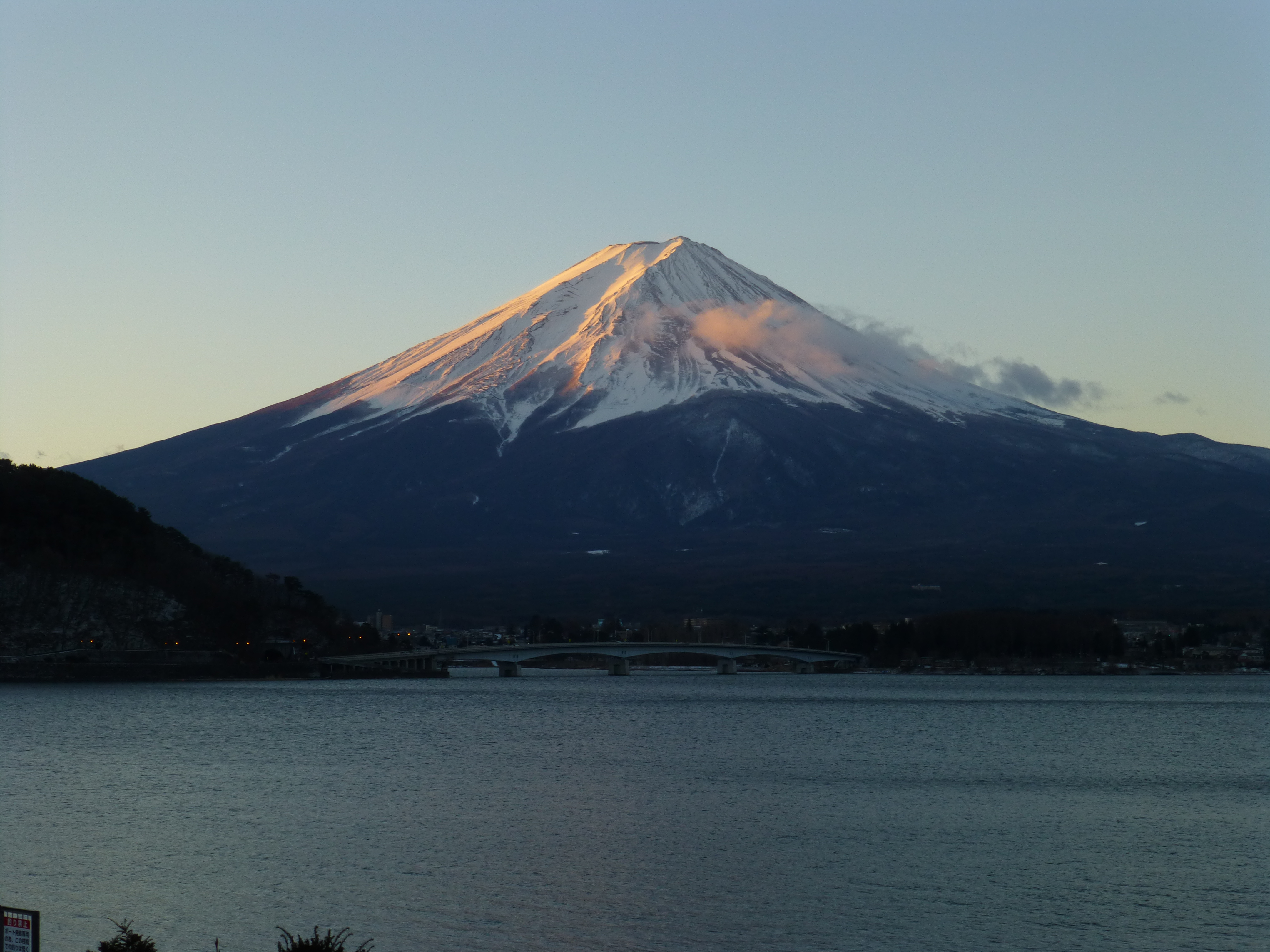 Mount Fuji above Lake Kawaguchi (Kawaguchi-ko) in Japan. January 19, 2014.